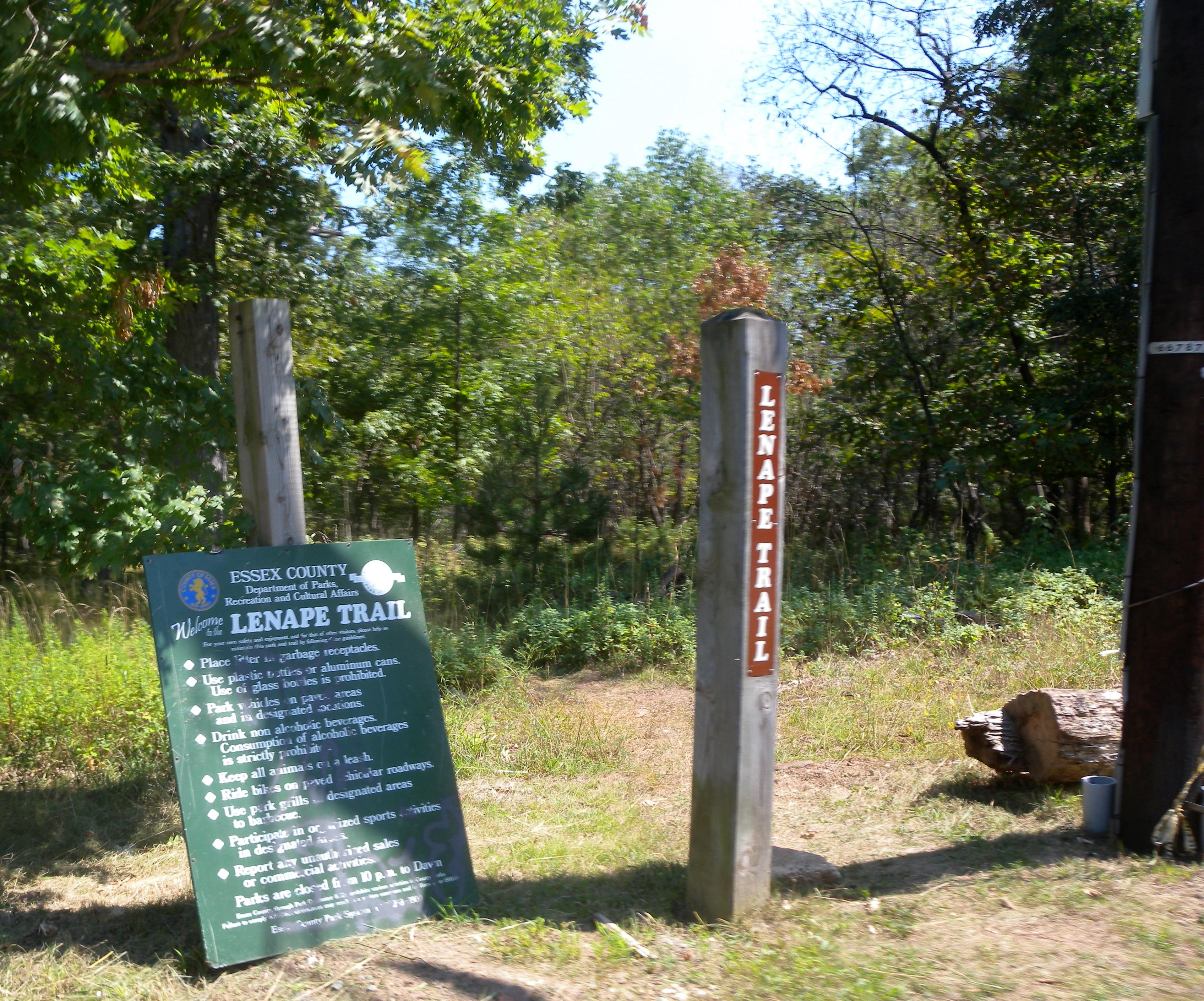 Looking east at Lenape Trail entrance on road north of restaurant in Eagle Rock reservation on a sunny midday.